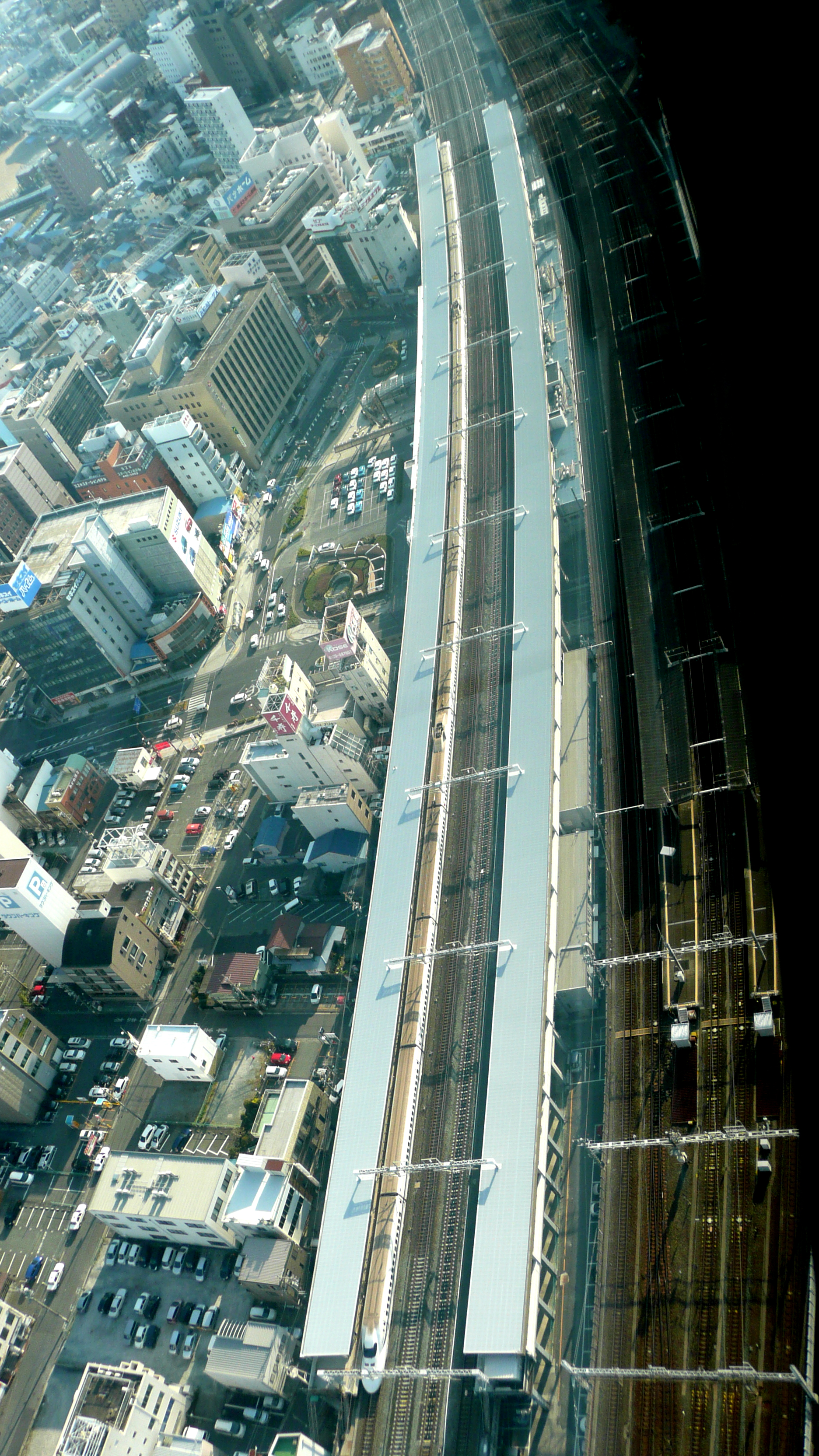 Hamamatsu Railway Station, incl. Shinkansen, Japan